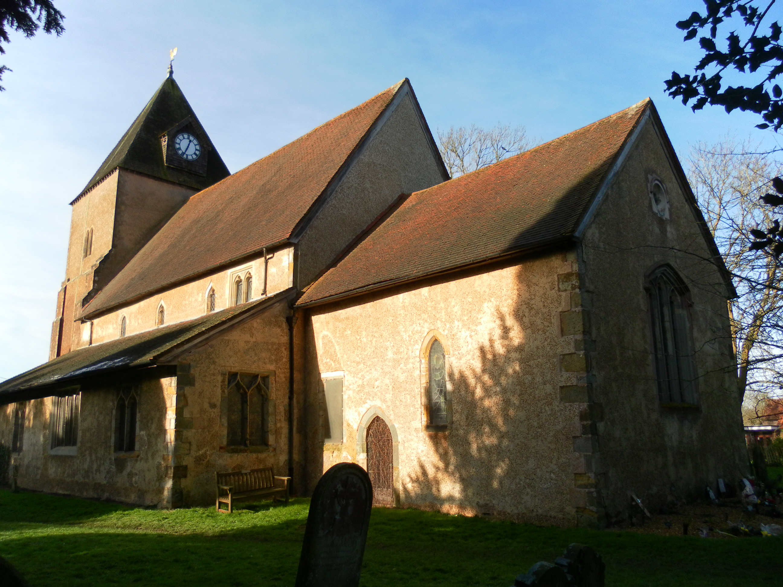 St Margaret's Church, Ifield, Crawley, West Sussex, England. The ancient Anglican parish church of the village of Ifield, now part of the new town of Crawley.